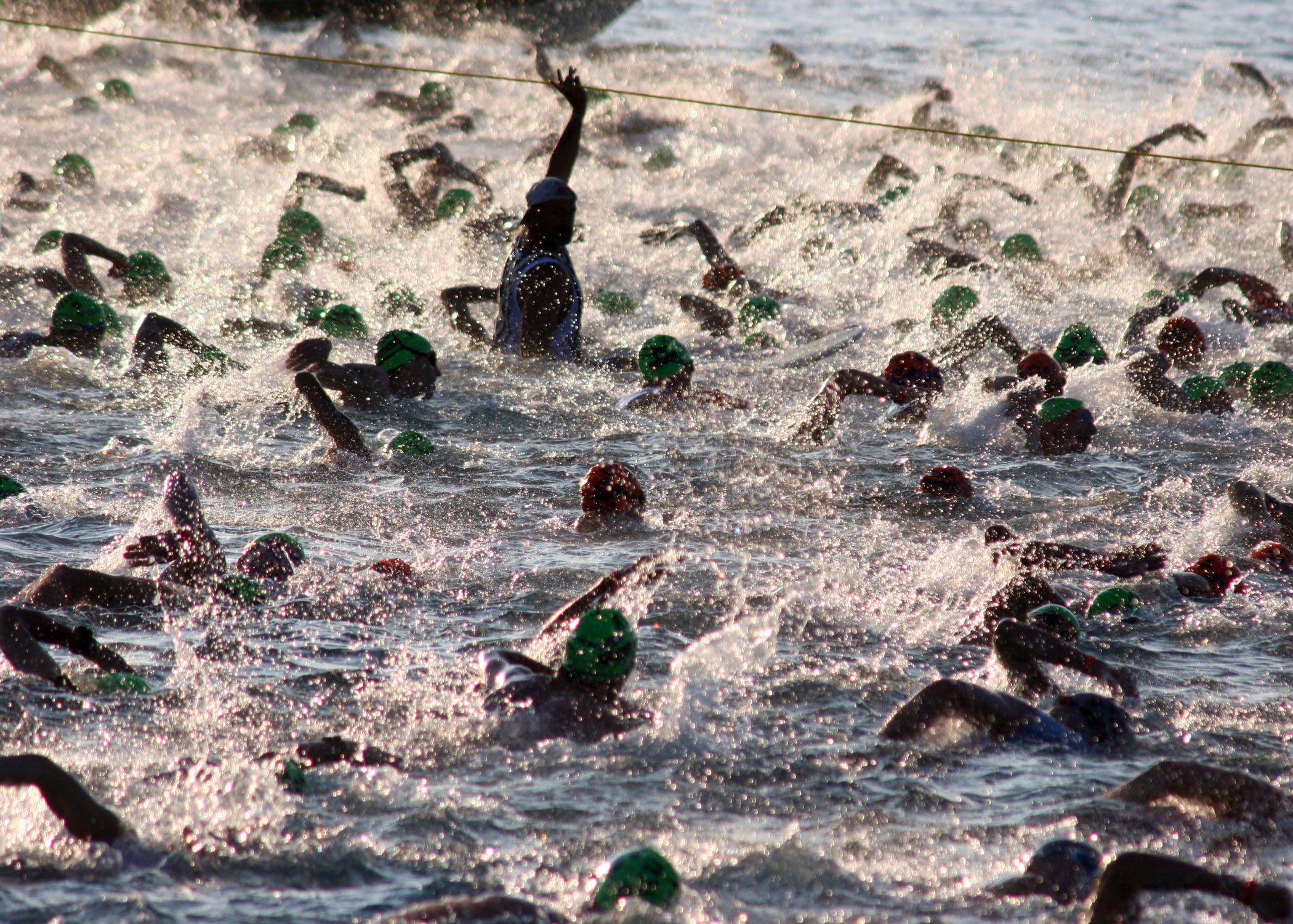 Kailua-Kona, Hawaii (Oct. 15, 2005) - Almost 2,000 triathletes begin the 2.4-mile swim at the Ironman World Championship triathlon, held in Kailua-Kona, Hawaii. Four Navy participants completed the triathlon. U.S. Navy photo by Chief Journalist Deborah Carson (RELEASED)